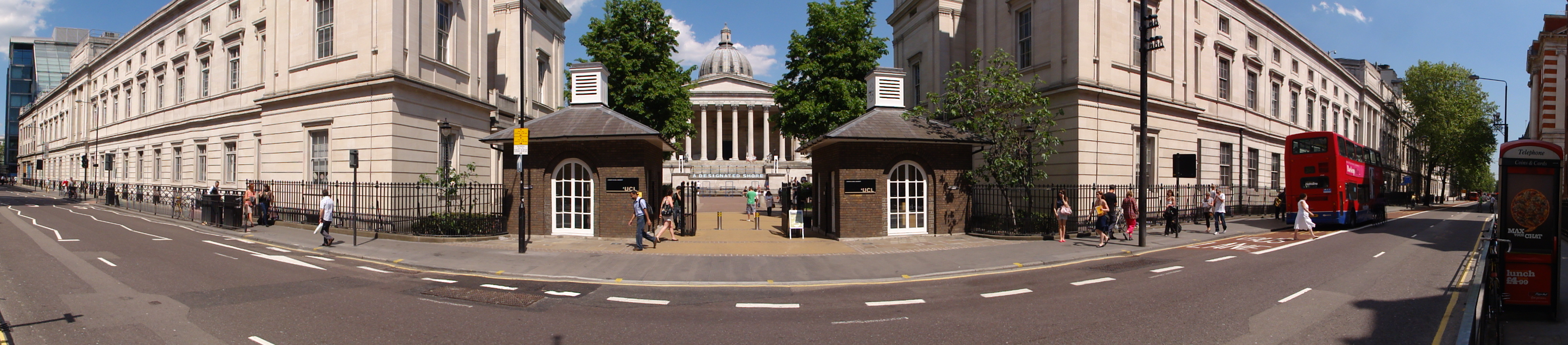 Taken opposite the entrance to UCL.